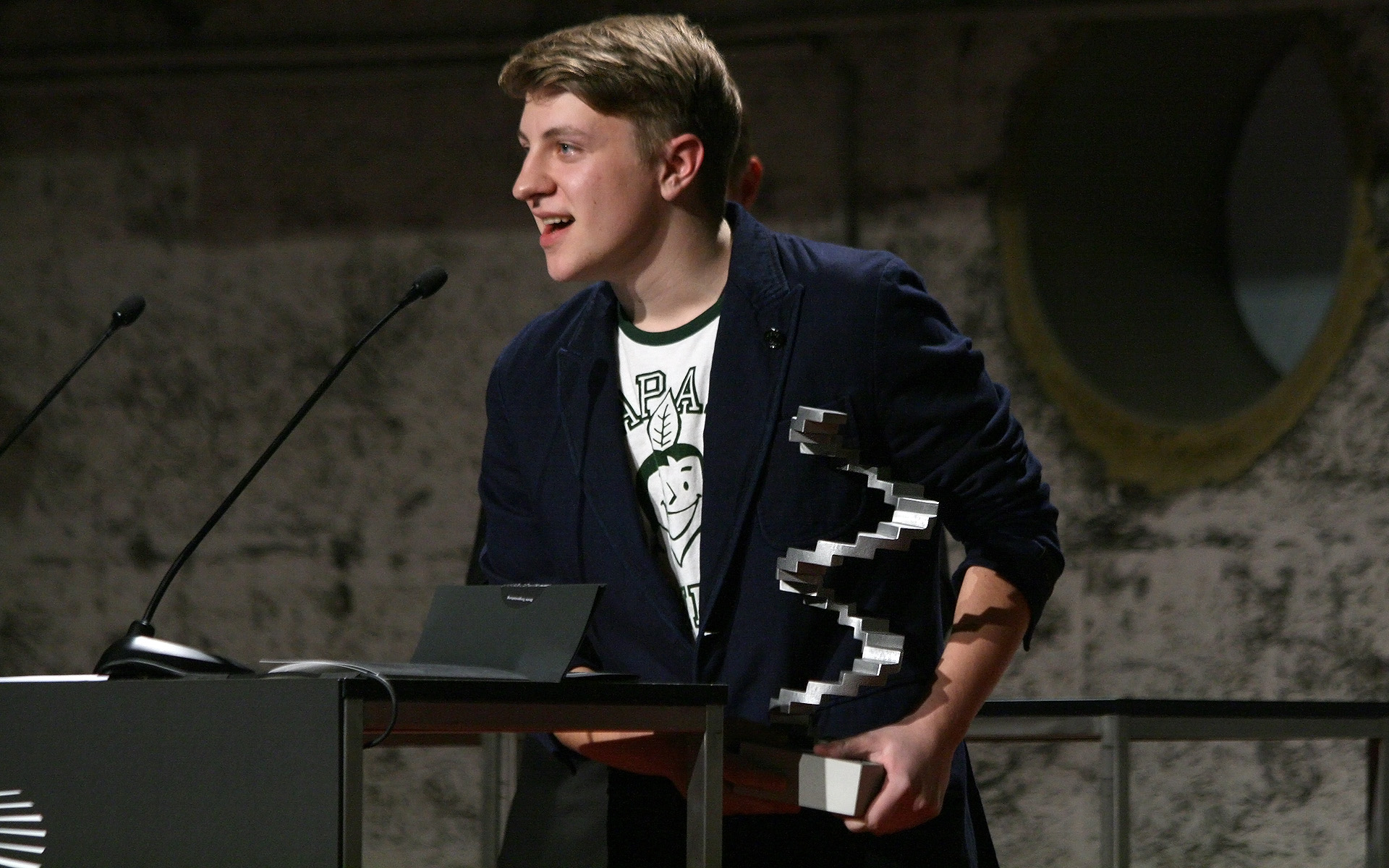 Thomas Schubert, Austrian Film Awards 2012 (Vienna).